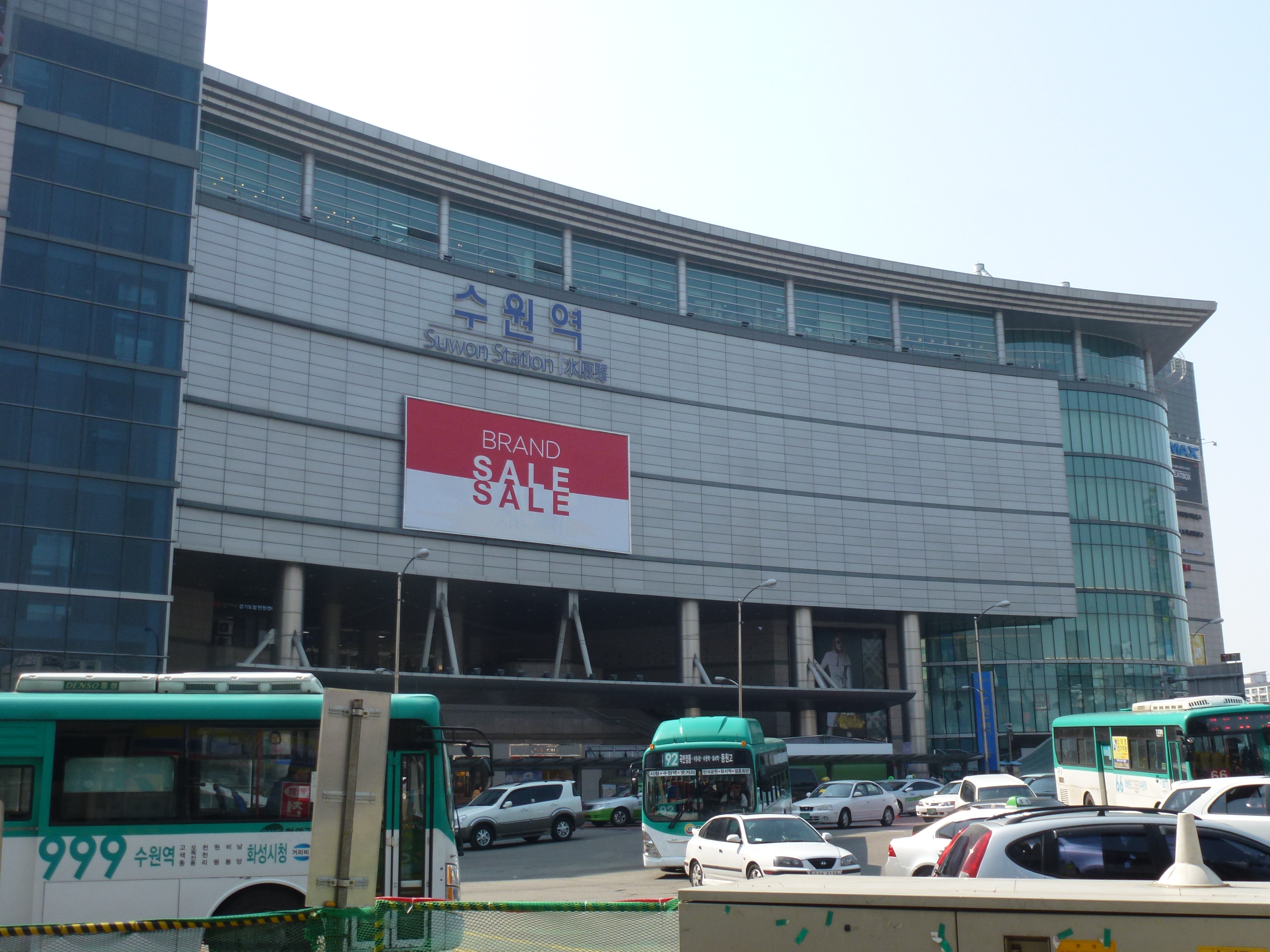 Suwon station, Suwon city, South Korea